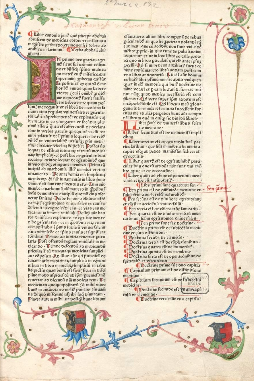 Avicenna, Canon book 1 (Strasbourg, ante 1473) fol. 1r with decoration added by hand